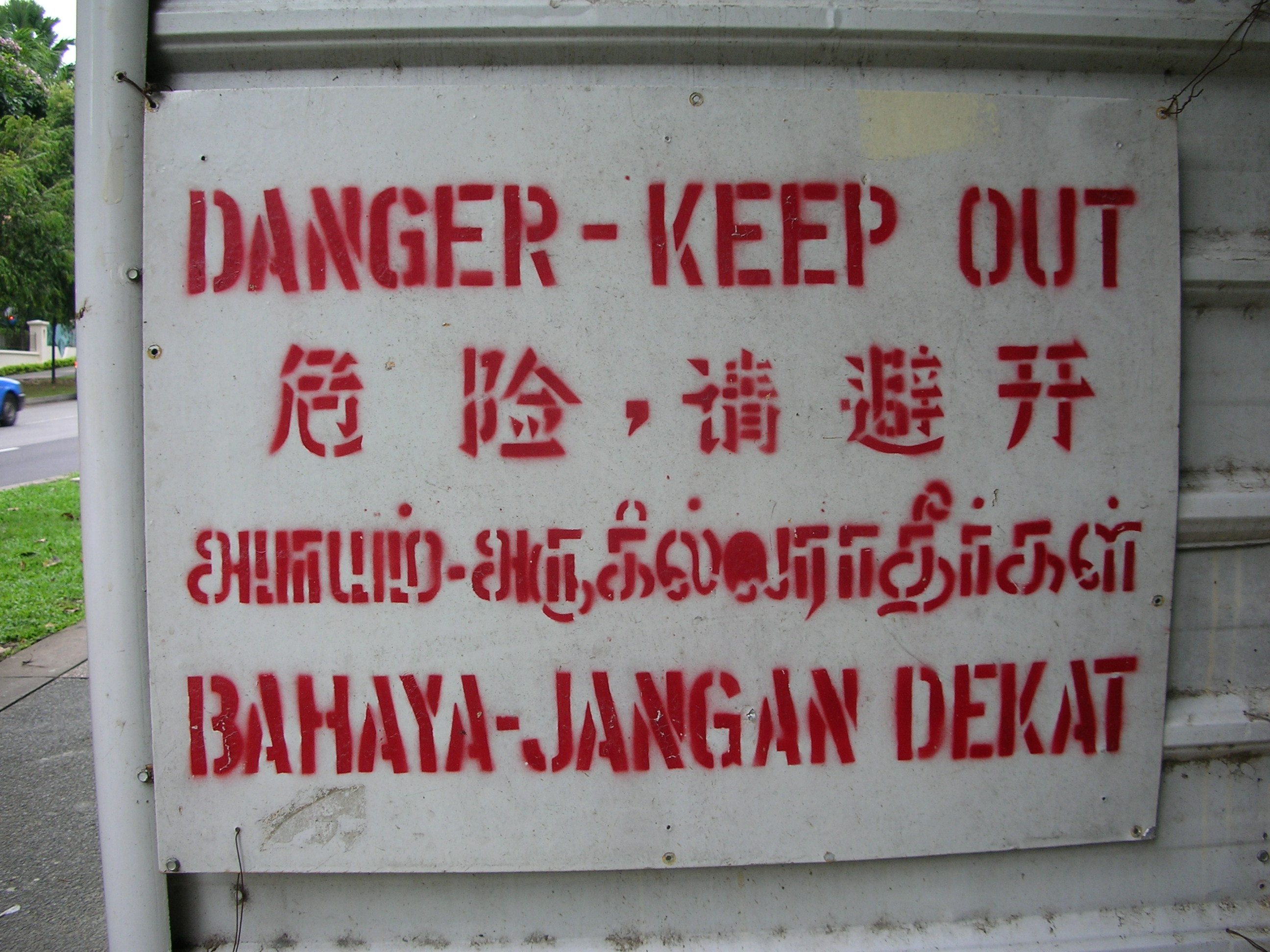 Quadrilingual warning sign in Singapore. The text is in the four official languages of Singapore, from top to bottom: English, Chinese, Tamil and Malay.